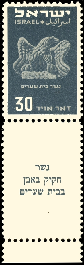 Airmail 1950 stamp- 30 mil, First definitive series. Inscription: "The Bet Shearim Eagle". Inscription on tab: "Eagle carved in stone al Bet Shearim".